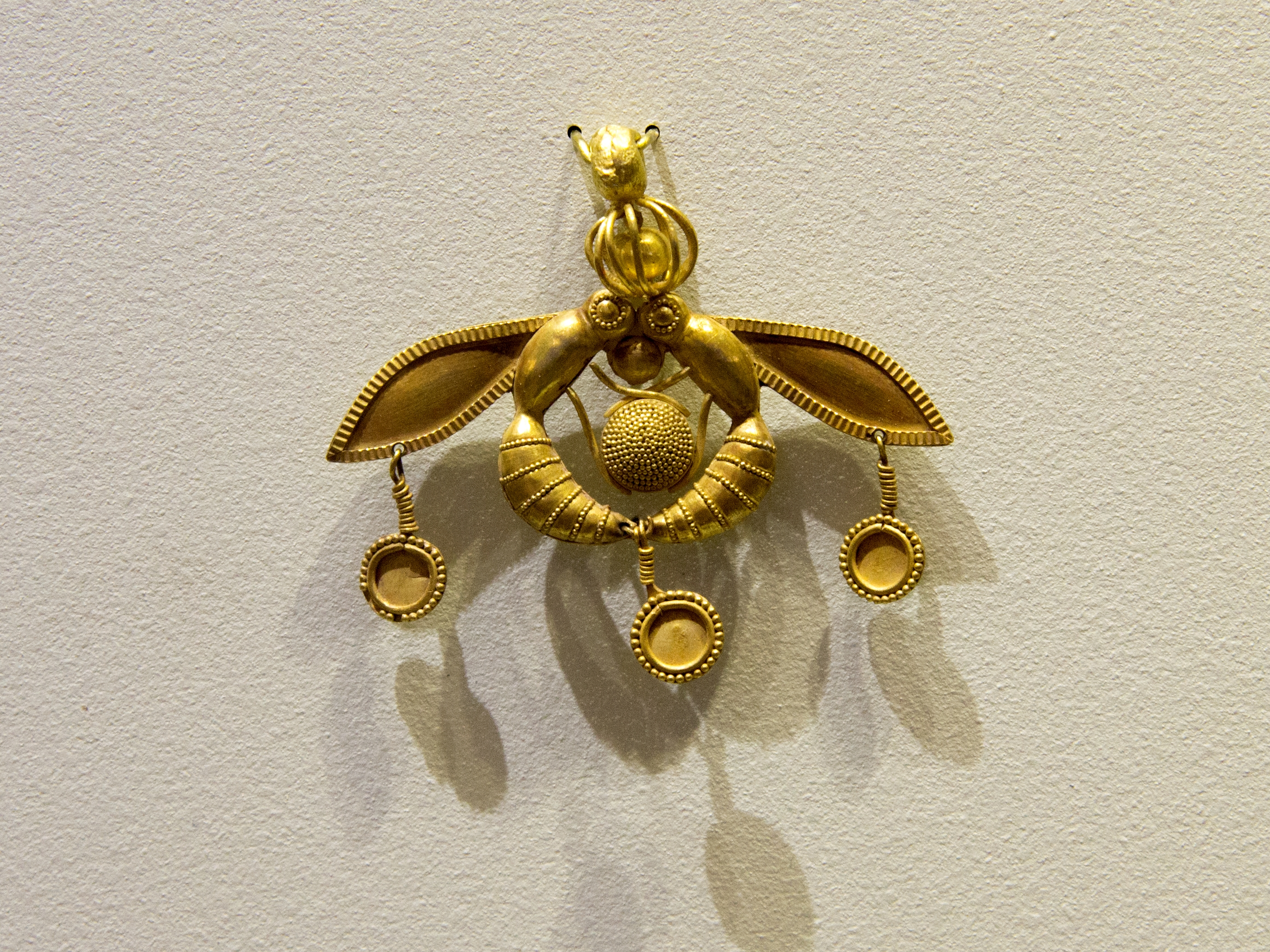 The bee pendant, gold ornament from Chrysolakos necropolis near Malia, Crete. 1800-1700 BC. Archeological Museum of Heraklion.